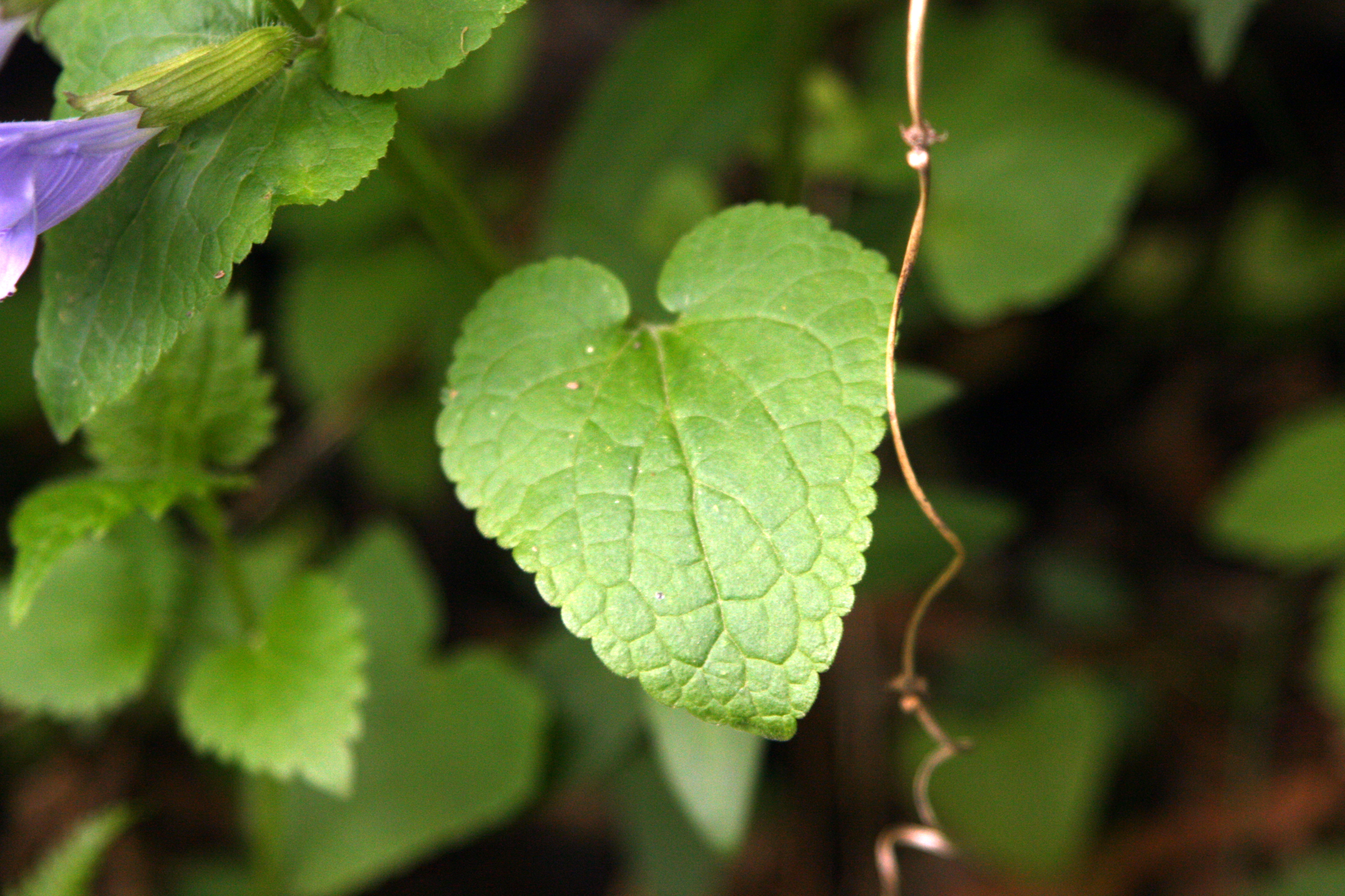 Meehania urticifolia